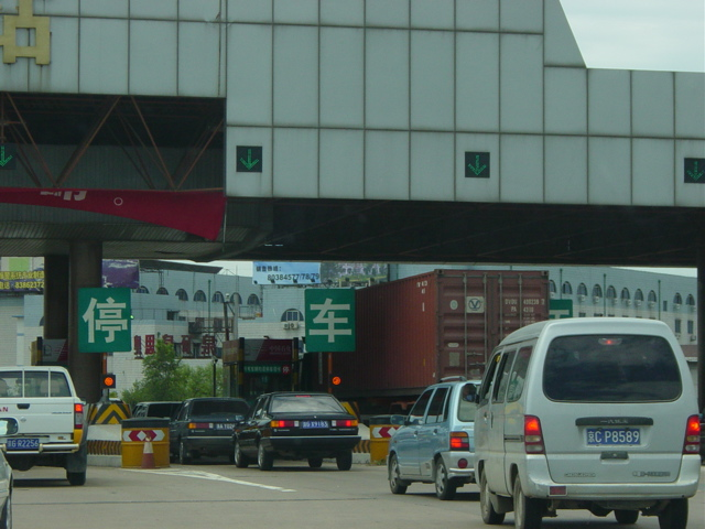 Chinese expressway toll gate. DF08 2004 image.